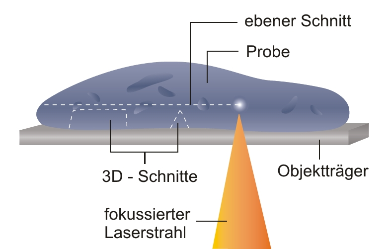 Principle of laser microtomy